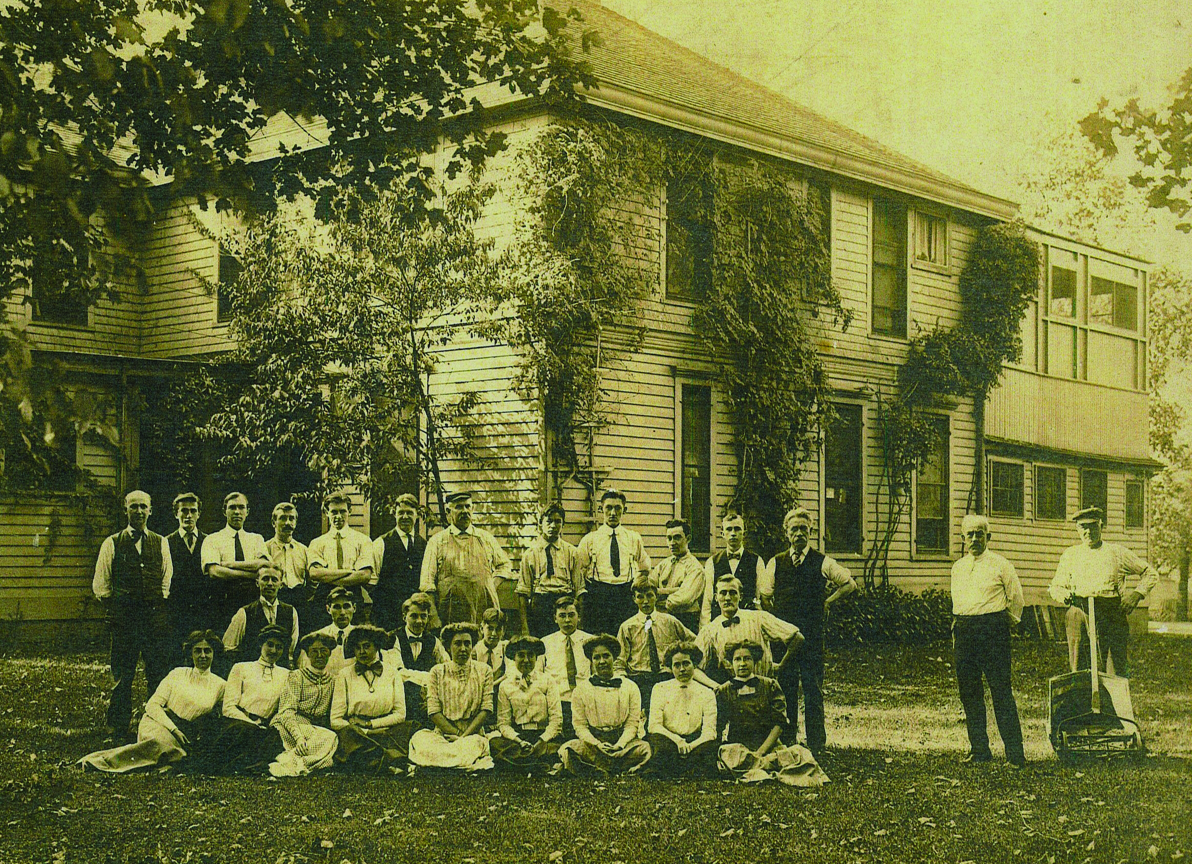 Metalsmiths, jewelers, designers and crafts workers seated in front of the Kalo Arts Crafts Community House in Park Ridge, IL, c.1910. Park Ridge was the home of the manufacturing facilities for the Kalo Shop and the School of the Kalo Workshop from c.1907-1914.